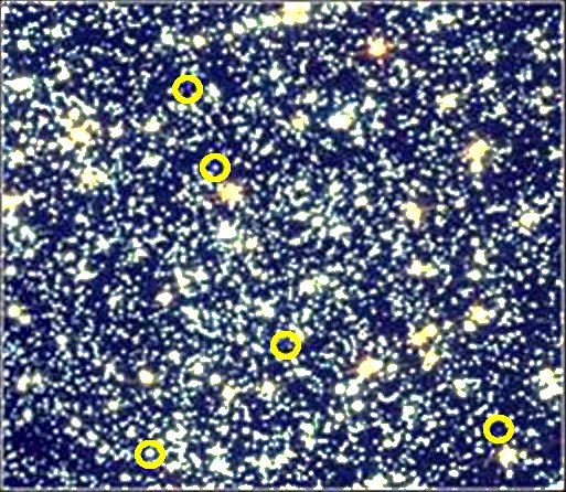 Blue stragglers in globular cluster 47 Tucanae.